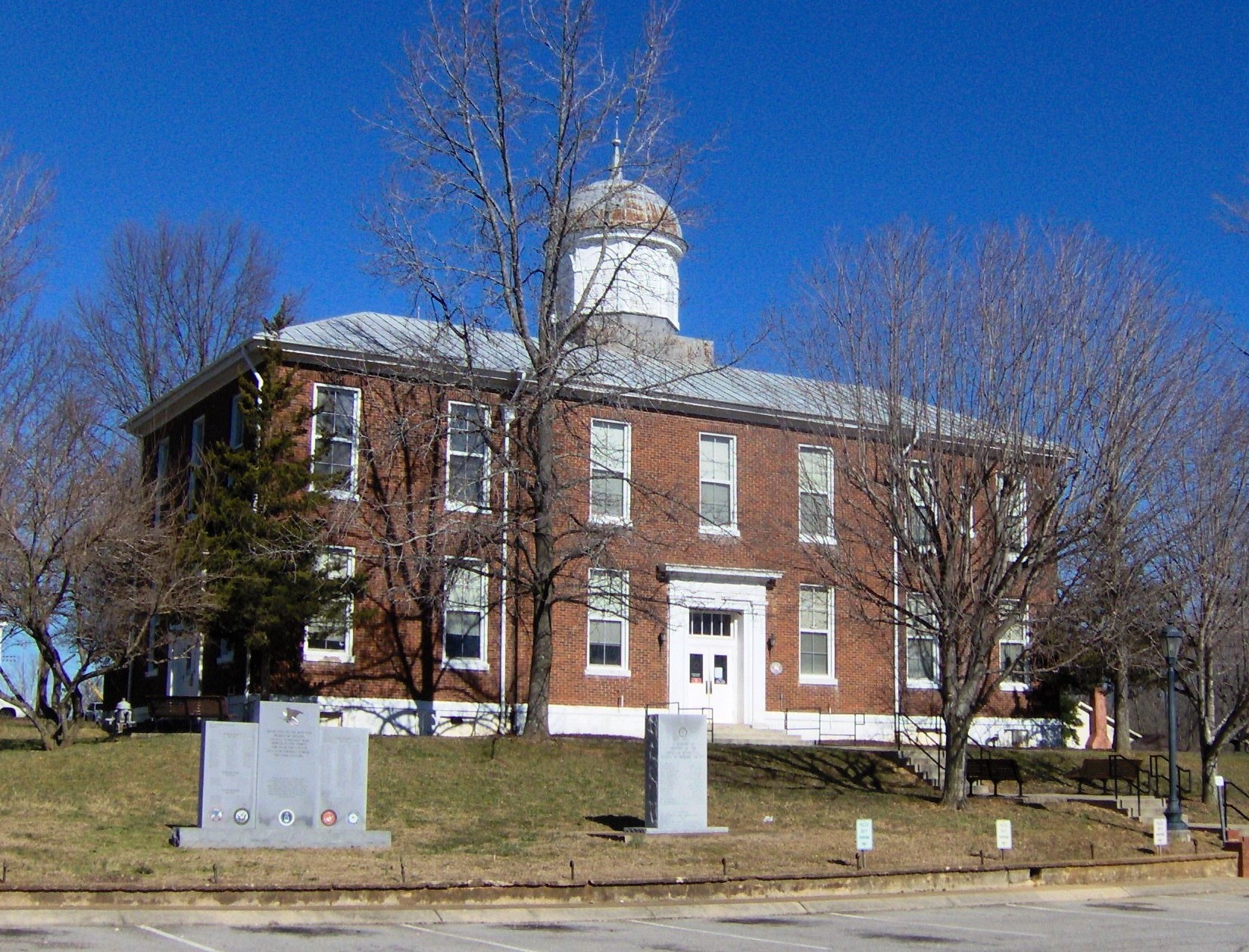 Dickson County Courthouse in Charlotte, Tennessee, in the southeastern United States. Built in 1833, this courthouse is the oldest operating courthouse in the state of Tennessee. The courthouse is part of the Charlotte Courthouse Square Historic District, which was added to the U.S. National Register of Historic Places as a historic district in 1977. The historic district includes the Voorhies-James House, built in 1806, the B.A. Collier Store, built in 1949, and several other notable structures.